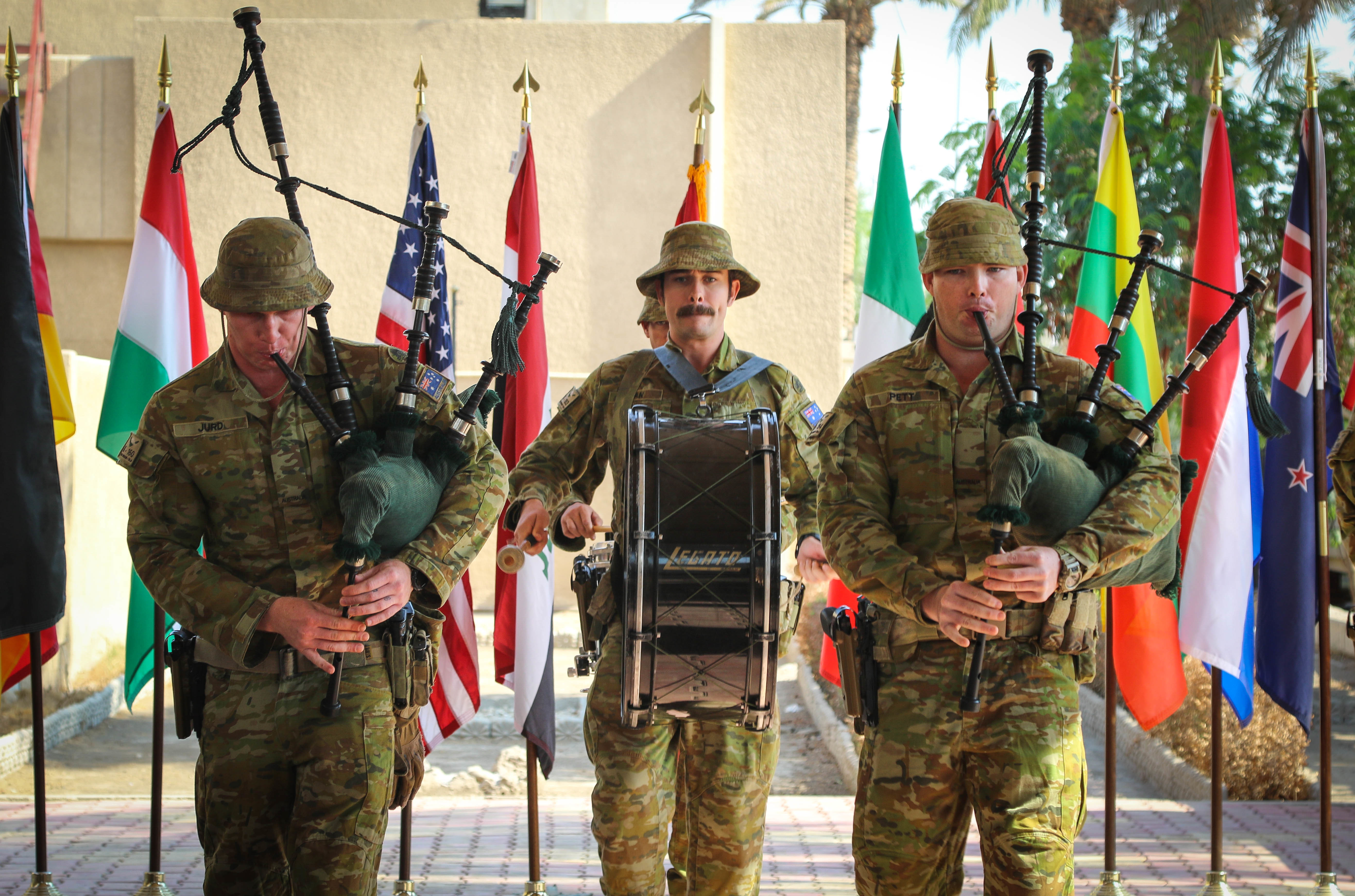 The Pipes and Drums of the 3rd Battalion, Royal Australian Regiment, deployed in support of Combined Joint Forces Land Component Command – Operation Inherent Resolve, play the Marine’s Hymn during the 242nd Marine Corps birthday ceremony in Baghdad, Iraq, Nov. 10, 2017.